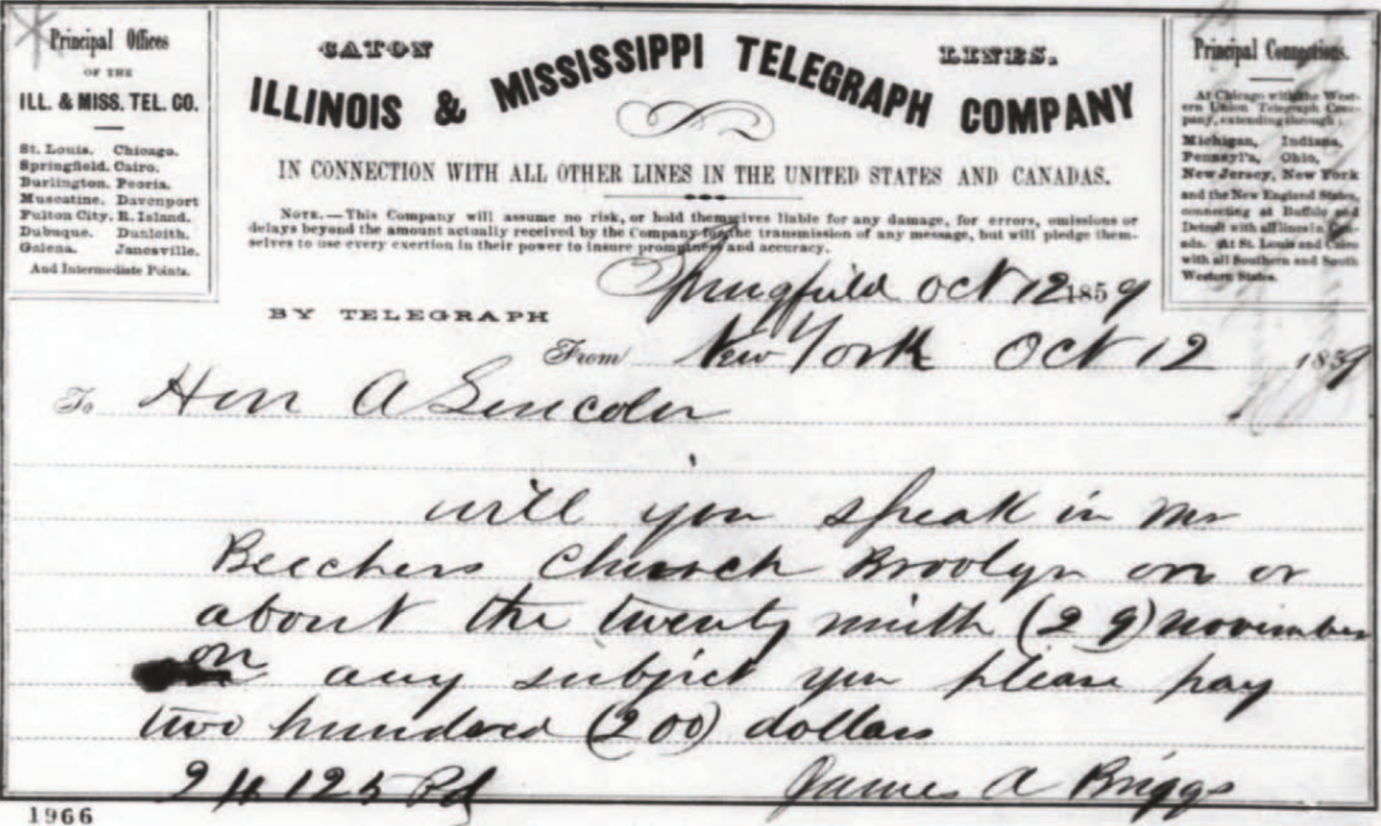 Telegram inviting Abraham Lincoln to speak at Plymouth Church (Brooklyn) in February 1860.